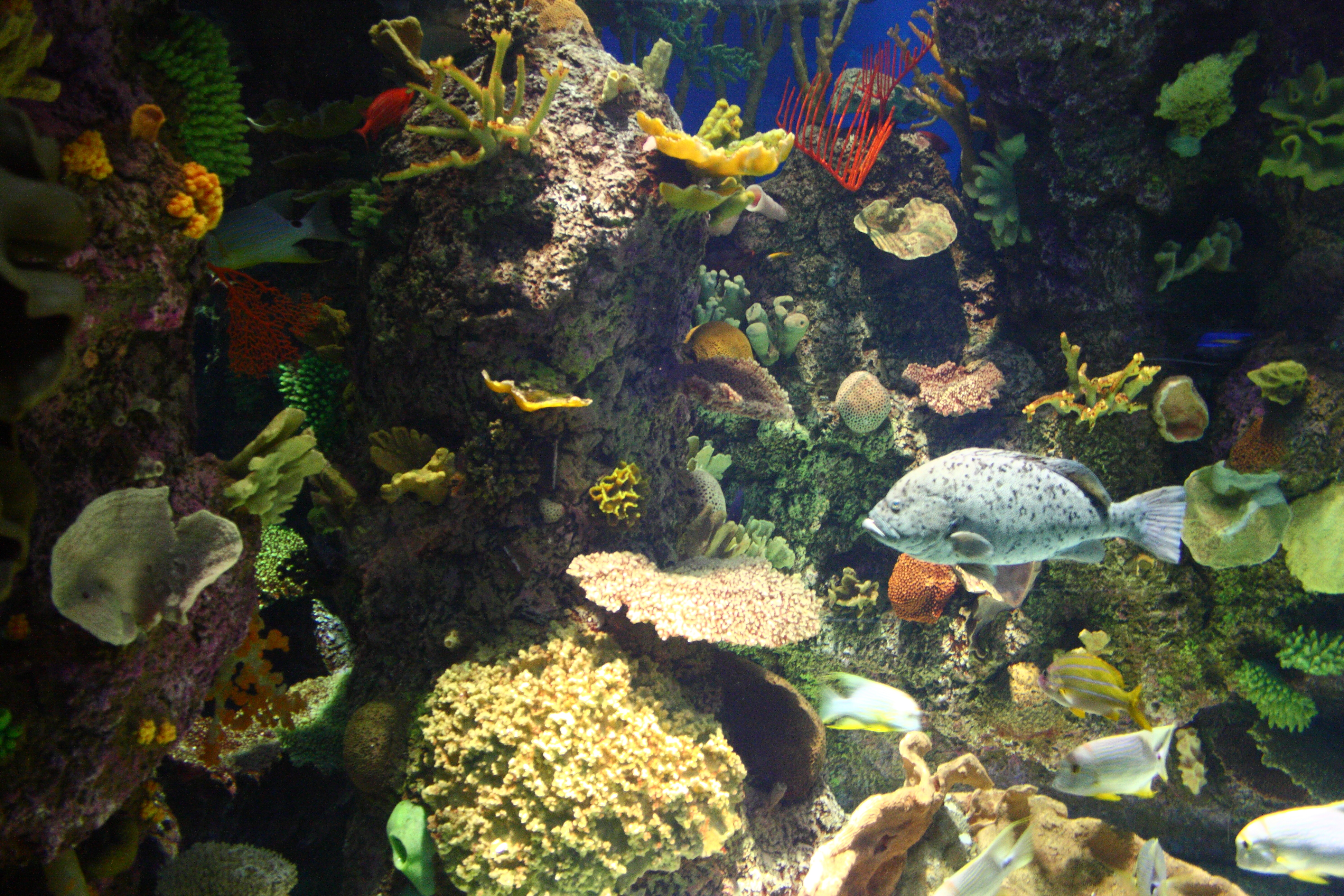 OpenStreetMap(Info) Part of the Wild Reef exhibit at Shedd Aquarium in Chicago, Illinois